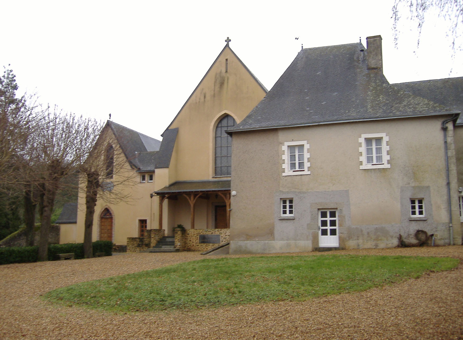 The church of O.L. Port du Salut Abbey, Entrammes, France La chiesa dell'Abbazia N.D. Port du salut, Entrammes, Francia